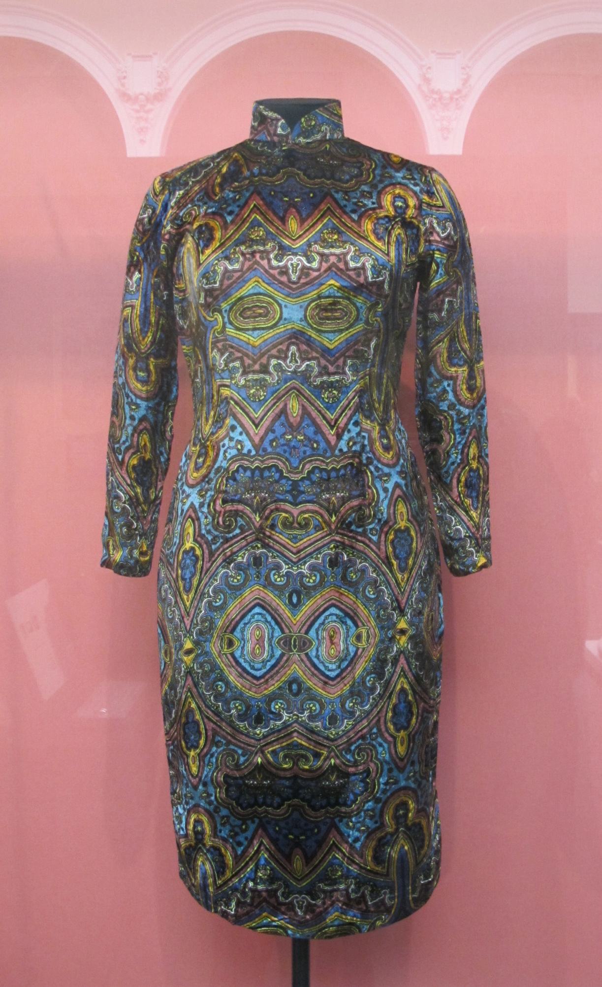 Qipao from Hong Kong. Printed synthetic velvet. 1960-1970. V&A Museum. Museum number :FE 47-1995